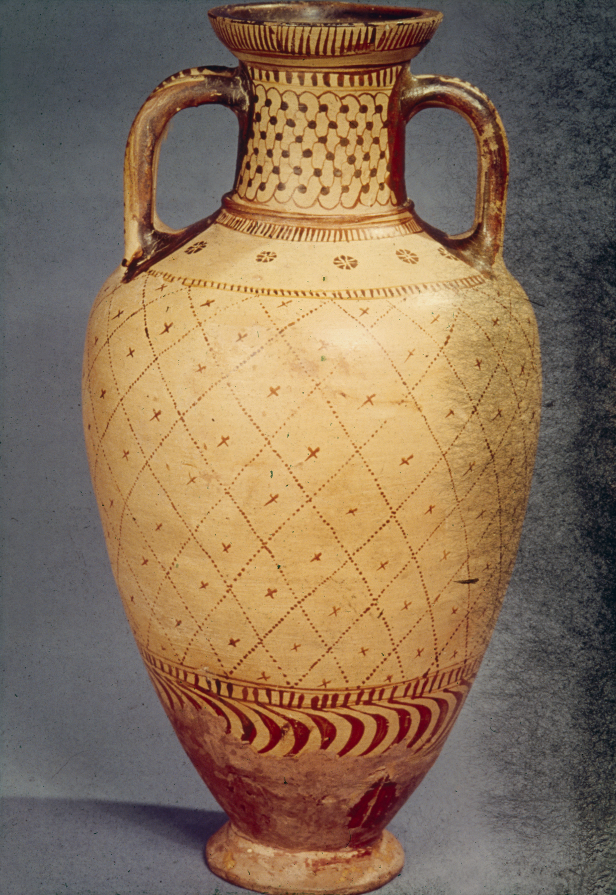 Fikellura ware derives its name from a site on Rhodes, where one of the first examples was found, but it is now believed that the pottery was made in Miletus, a site on the coast of Asia Minor. The braided "guilloche" (interlacing bands) pattern on the neck and the band of crescents above the foot are typically East Greek. The main body of the vase is decorated with a delicate lattice pattern imitating fine embroidery.